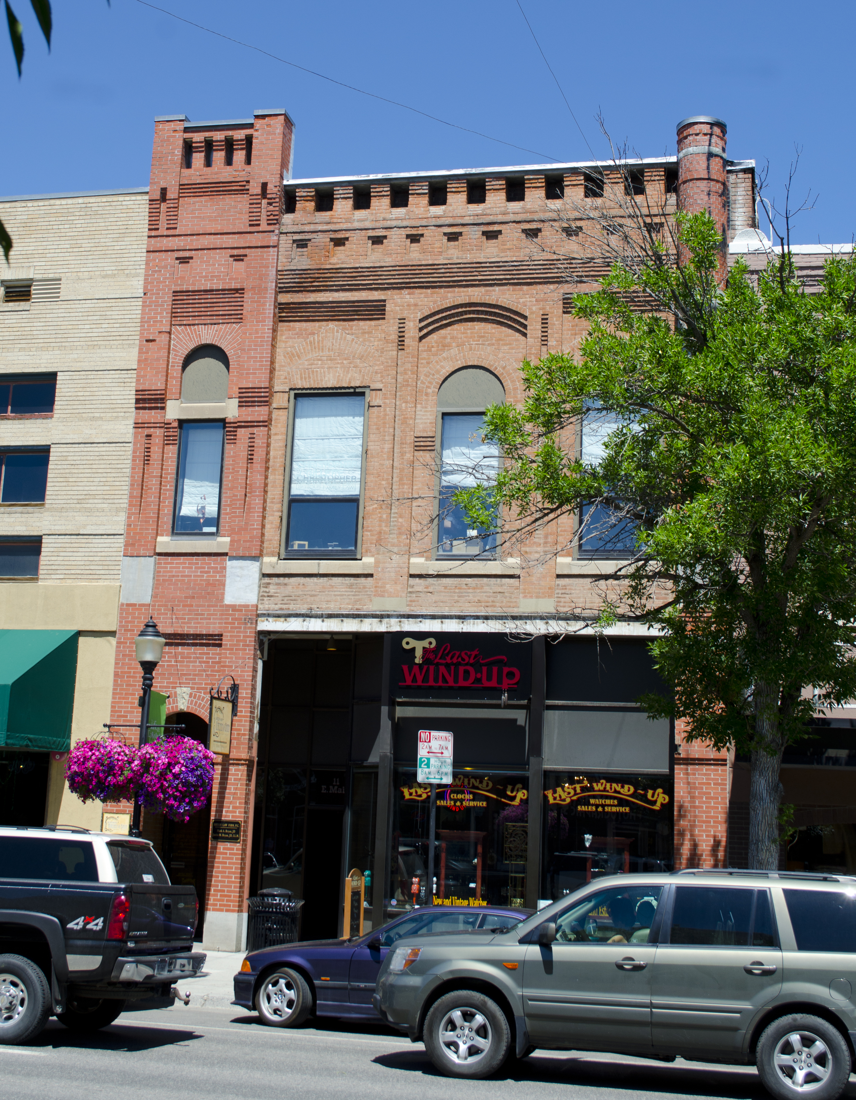 The R.T. Barnett and Company Building (13 E. Main Street), in Bozeman, Montana. It was built between 1889 and 1890. The R.T. Barnett and Company Building was listed on the National Register of Historic Places on December 1, 1980, and is a contributing structure to the Main Street Historic District.